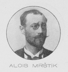 Portrait of Alois Mrštík (1861-1925), Czech writer